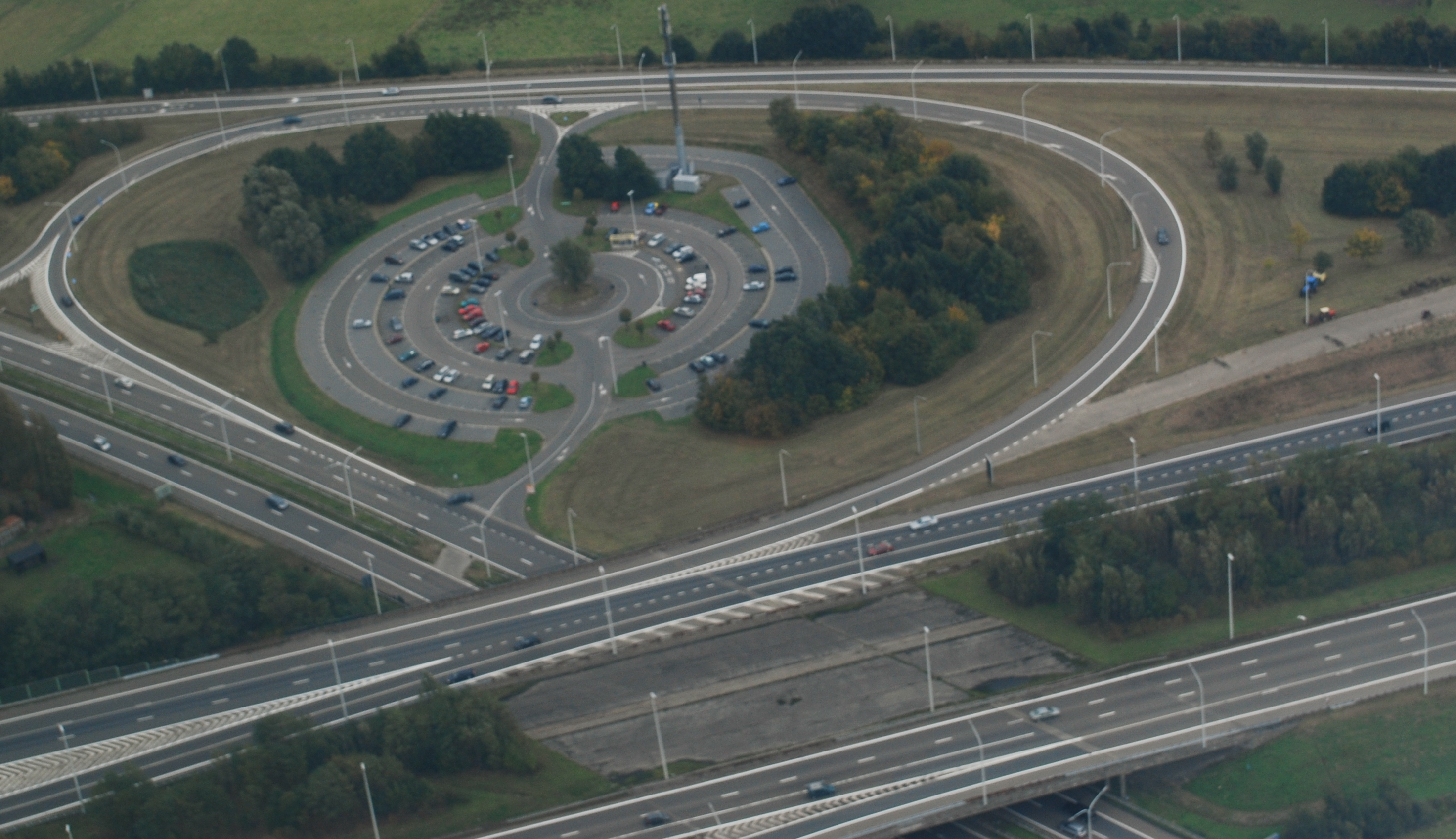 Aerial view of the commuter car park at the E19 motorway exit Kontich, Belgium. Nikon D60 f=35mm f/7.1 ISO 200 1/200s. Reframed and color corrected using Adobe Photoshop 4.0.